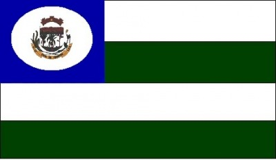 Flag of Axixá do Tocantins, created in 1956.